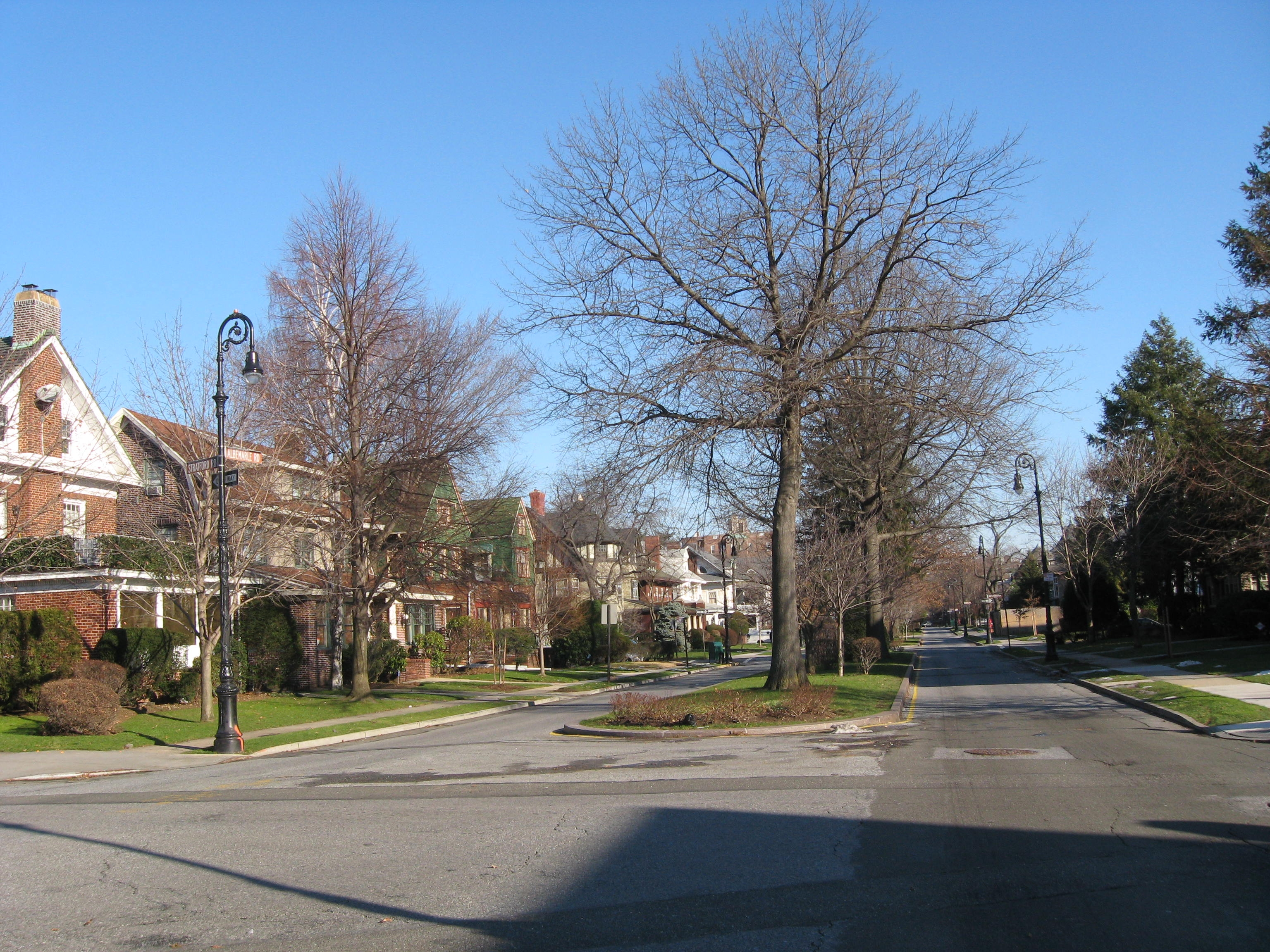 Looking northeast across Stratford Road and along Albemarle Road and its central grassy meridian on a sunny Christmas afternoon.